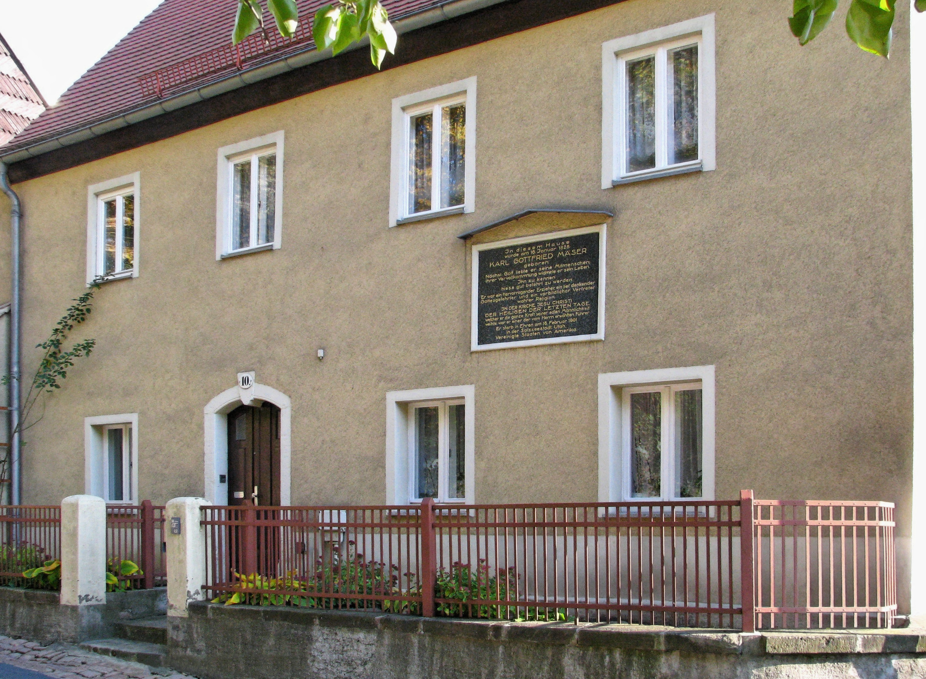 Karl Gottfried Maeser's house of birth